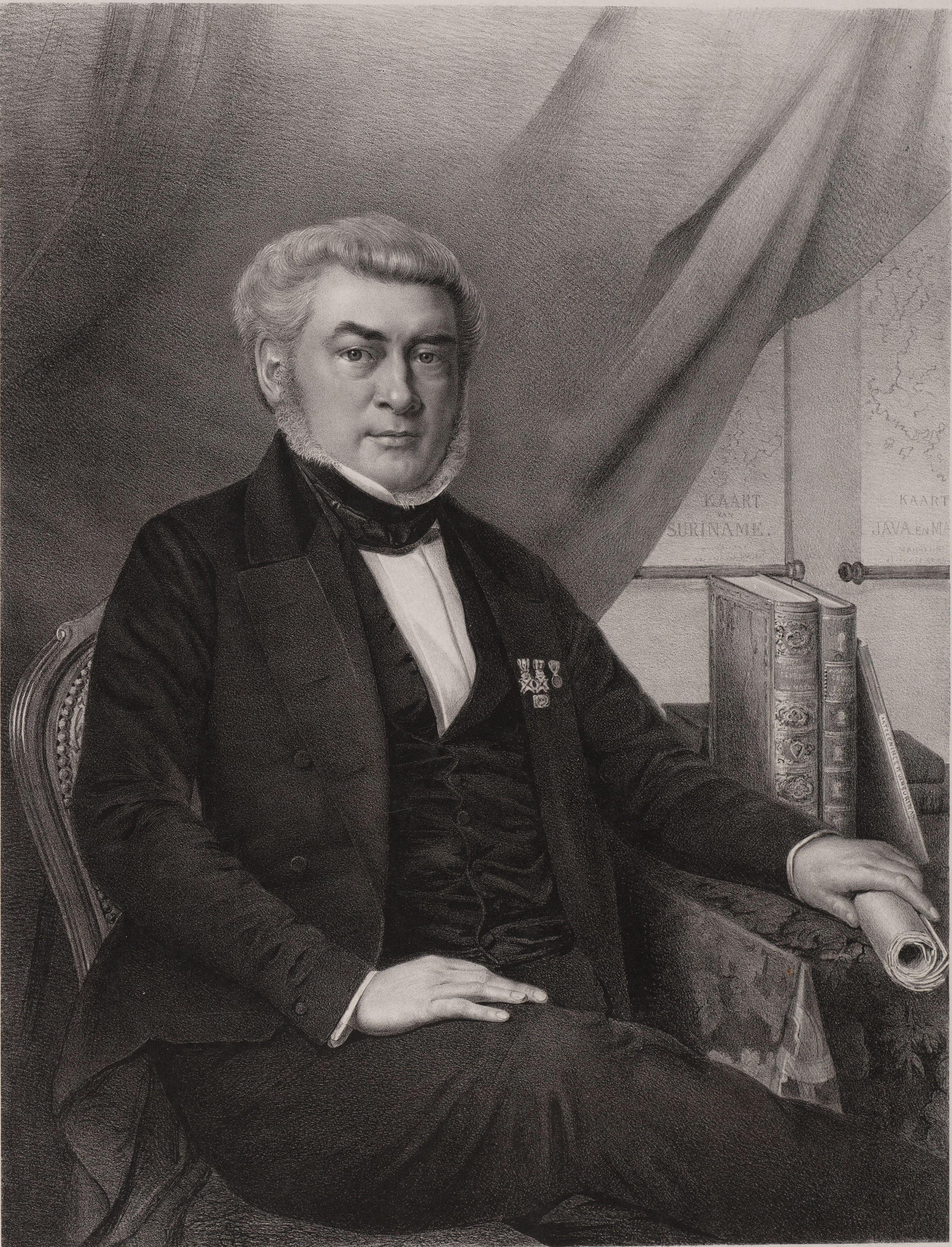 Lithography, Portrait Jonkheer Johann George Otto Stuart von Schmidt auf Altenstadt (1806-1857)